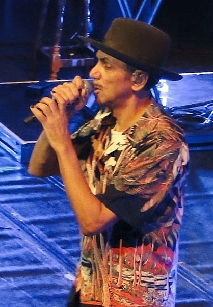 Dexy's lead singer Kevin Rowland - 11 September 2012